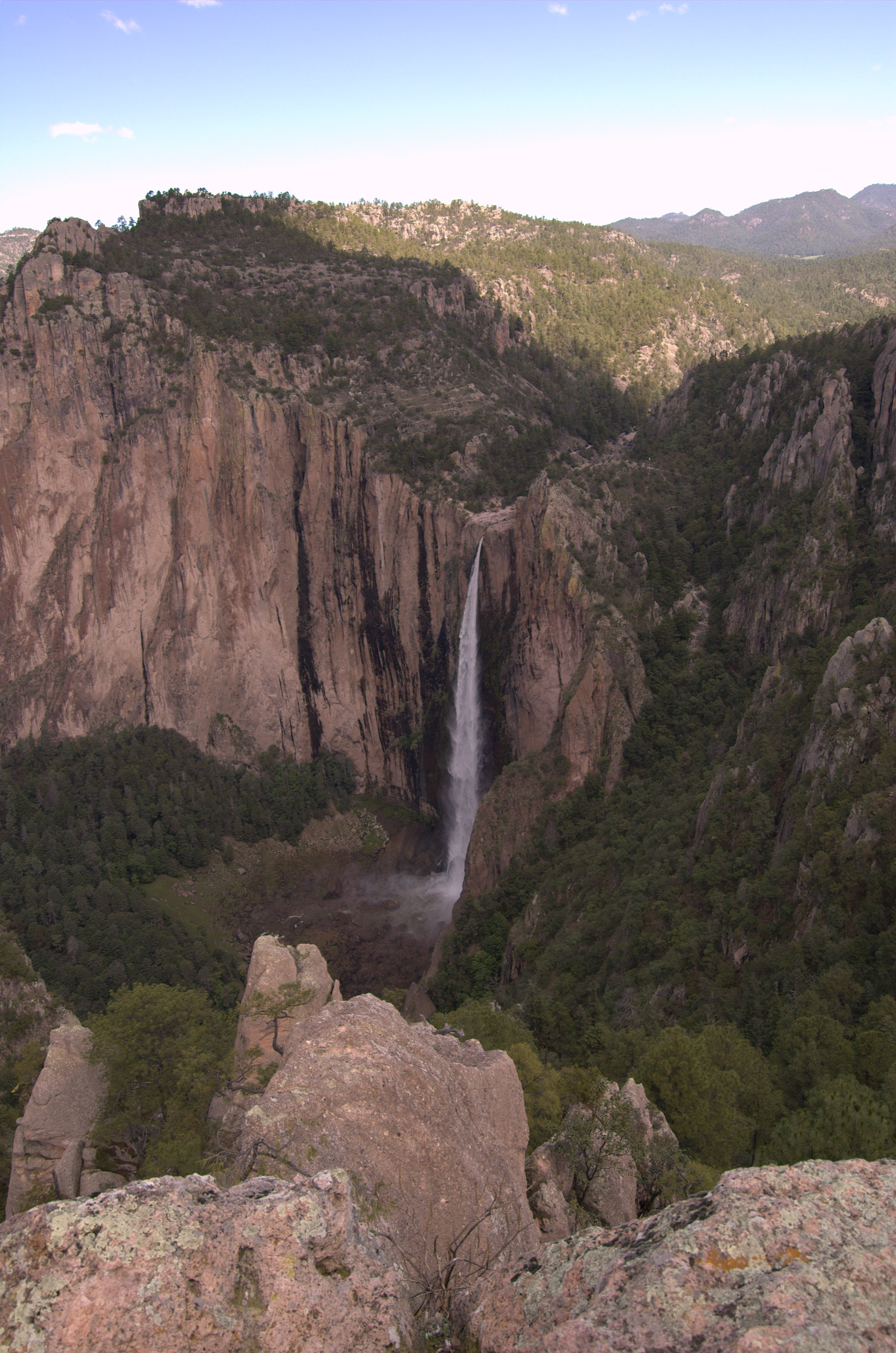 Basaseachic Falls of Basaseachic Falls National Park — in the Sierra Madre Occidental, state of Chihuahua, northern México.